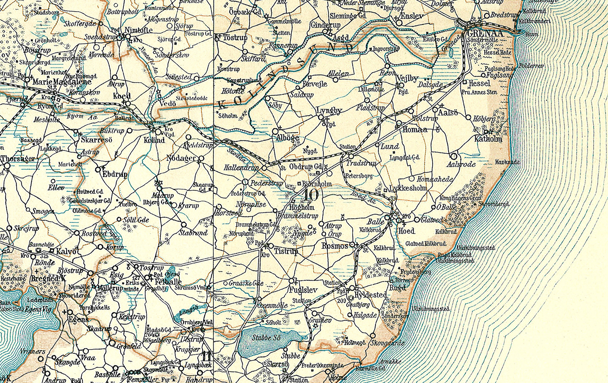 Map of Djurs Sønder Herred in the eastern part of Randers County in Denmark